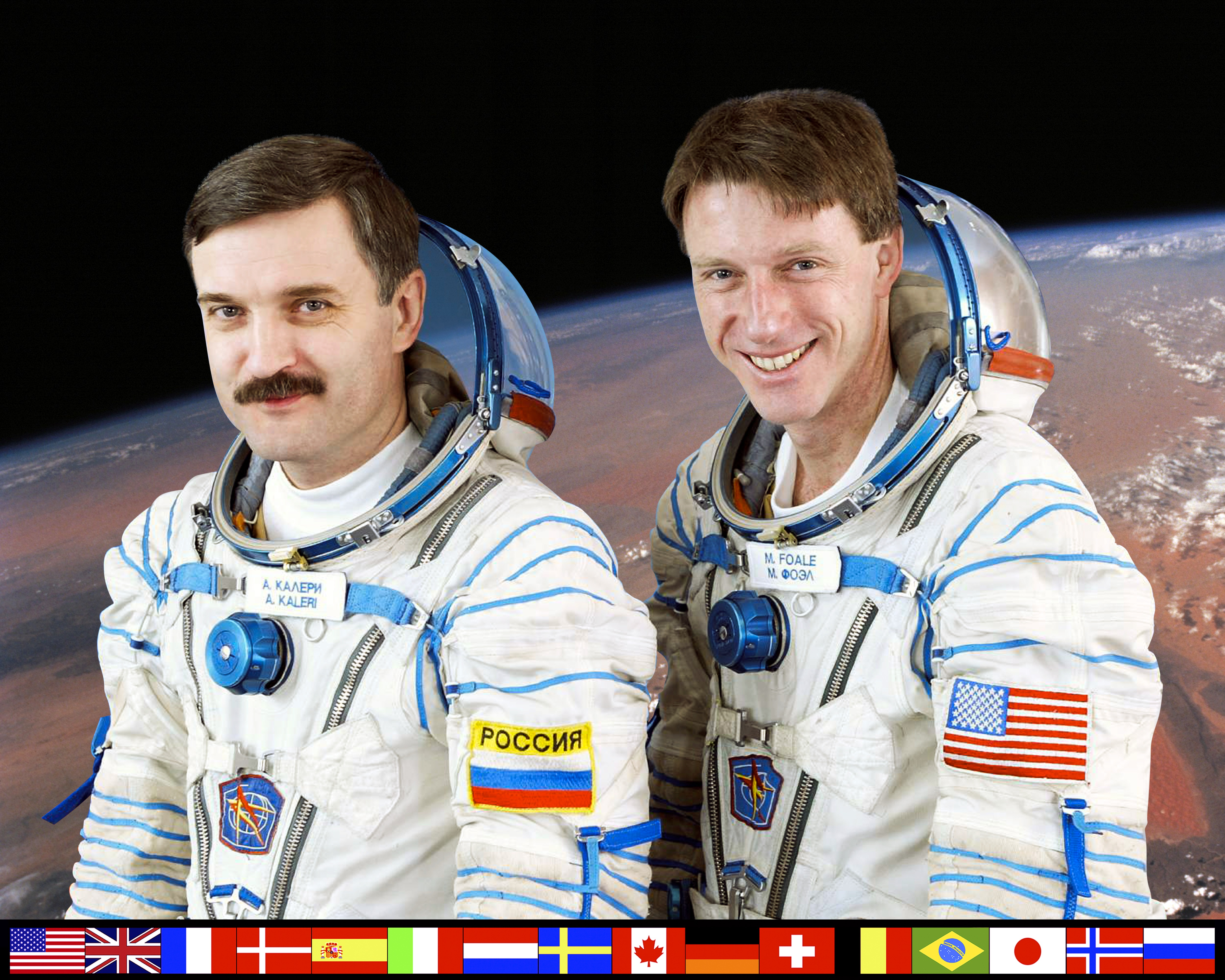 Astronaut C. Michael Foale (right), Expedition 8 mission commander, and cosmonaut Alexander Y. Kaleri, flight engineer, pose for their crew portrait while in training at the Gagarin Cosmonaut Training Center in Star City, Russia for their scheduled launch in a Soyuz TMA-3 spacecraft later this year. Kaleri represents Rosaviakosmos.